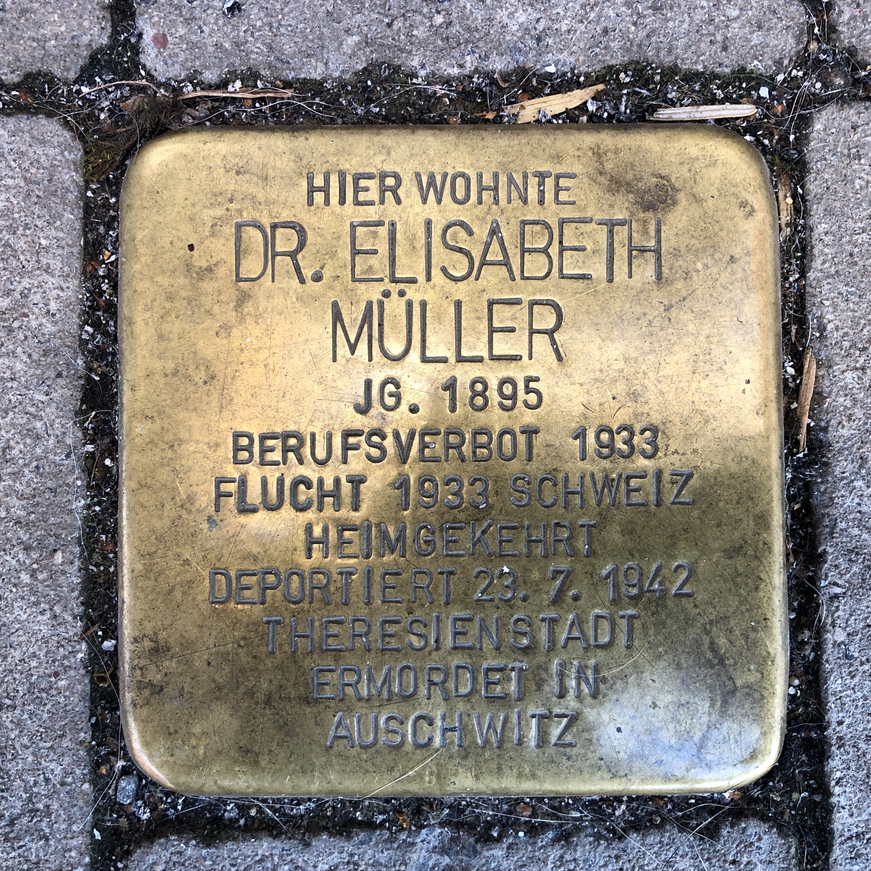 Stolperstein dedicated to Elisabeth Müller in Hanover. Initiated on 26 September 2018. Inscription (literal translation): Here lived Dr. Elisabeth Müller born 1895 1895 Berufsverbot 1933 Flucht 1933 Switzerland returned 1939 deported 23.7.1942 Theresienstadt murdered in Auschwitz